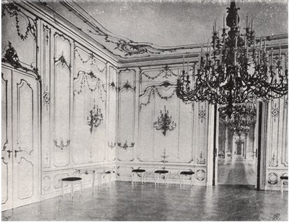 Reception Waiting Room in the baroque part of the Royal Castle of Budapest.